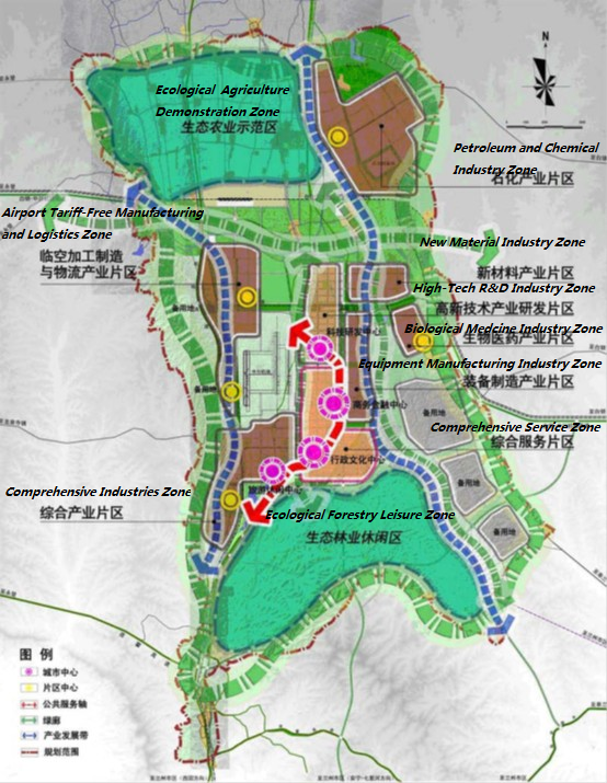 This is a government work from the General Planning of Lanzhou New Area (2011-2030), I added the English captions.